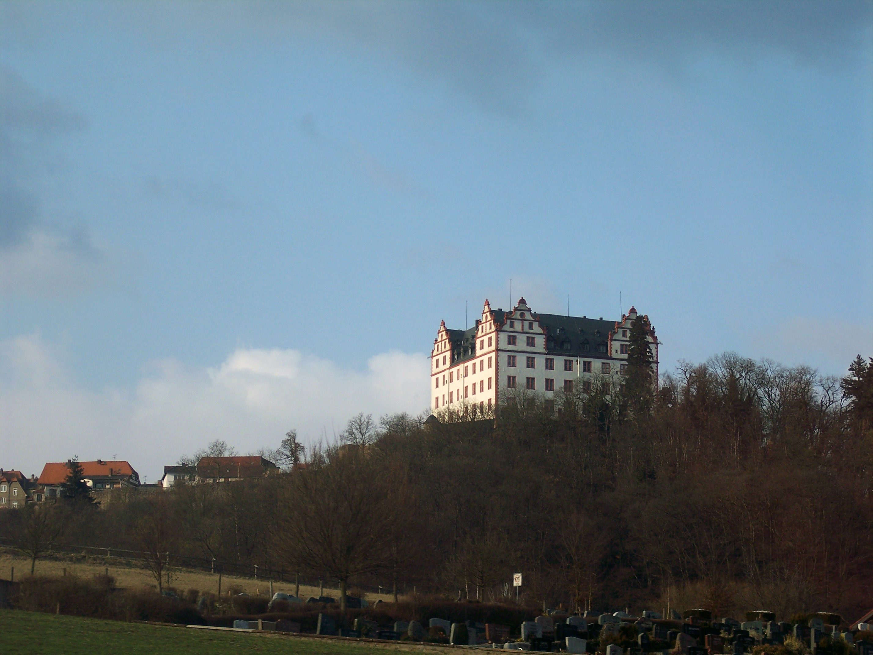 Lichtenberg castle in the Odenwald. Picture taken on 12 March 2006 by Hans Walter (Hwman 18:07, 12 March 2006 (UTC))